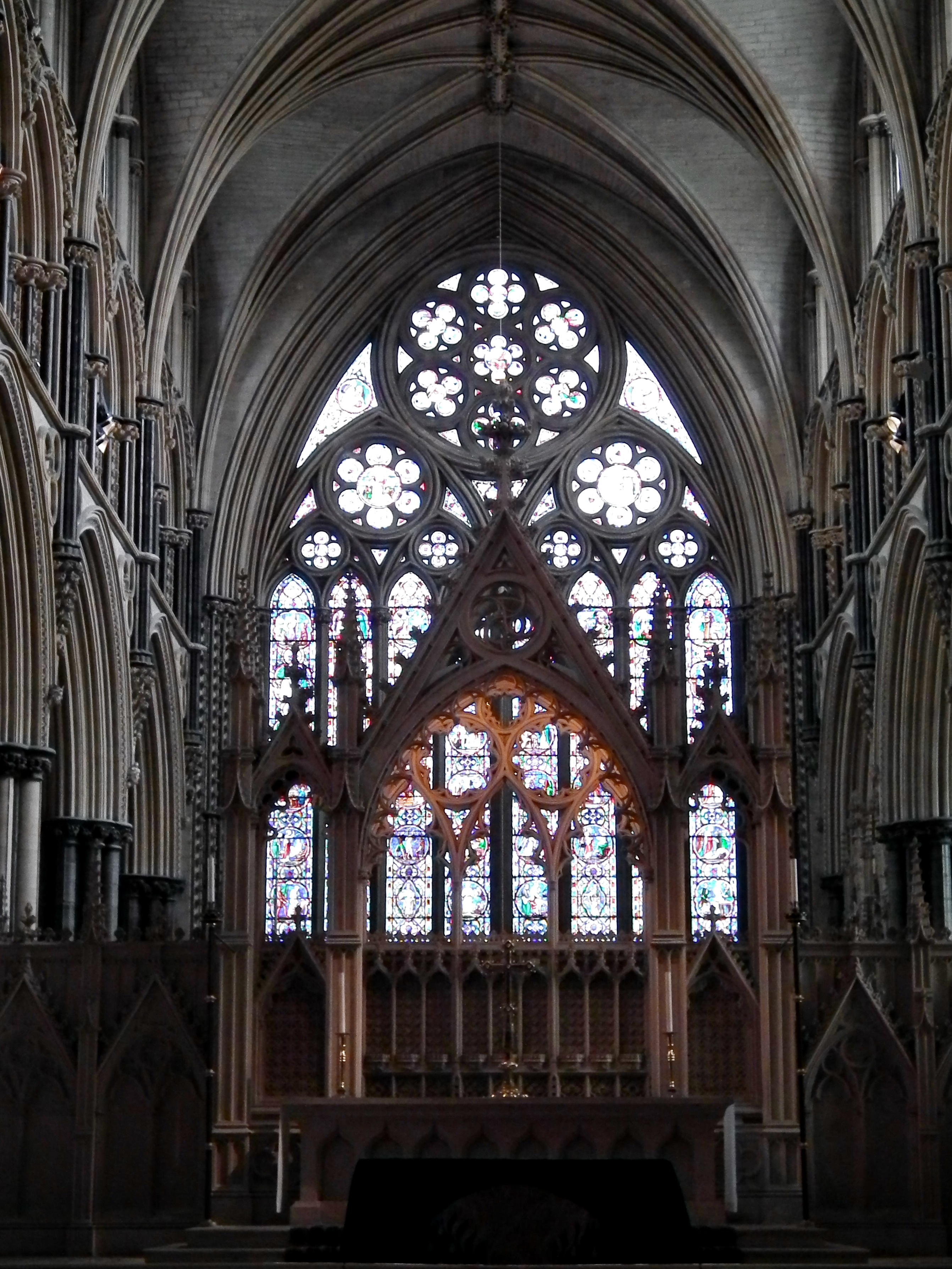 Lincoln Cathedral, Lincoln, England